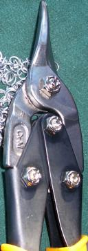 Tin Snip cutting tool